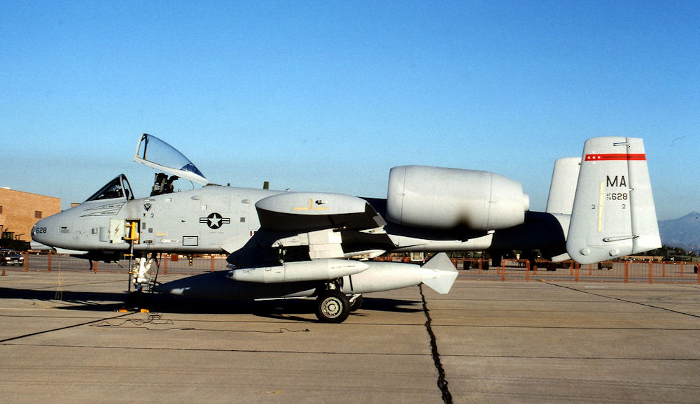 131st Tactical Fighter Squadron - Fairchild Republic A-10A Thunderbolt II 78-0628